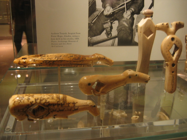 British Museum, London : Walrus ivory, Alaska, 19th century